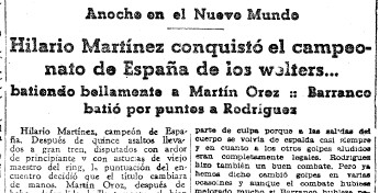 papar clip with Hilario Martínez